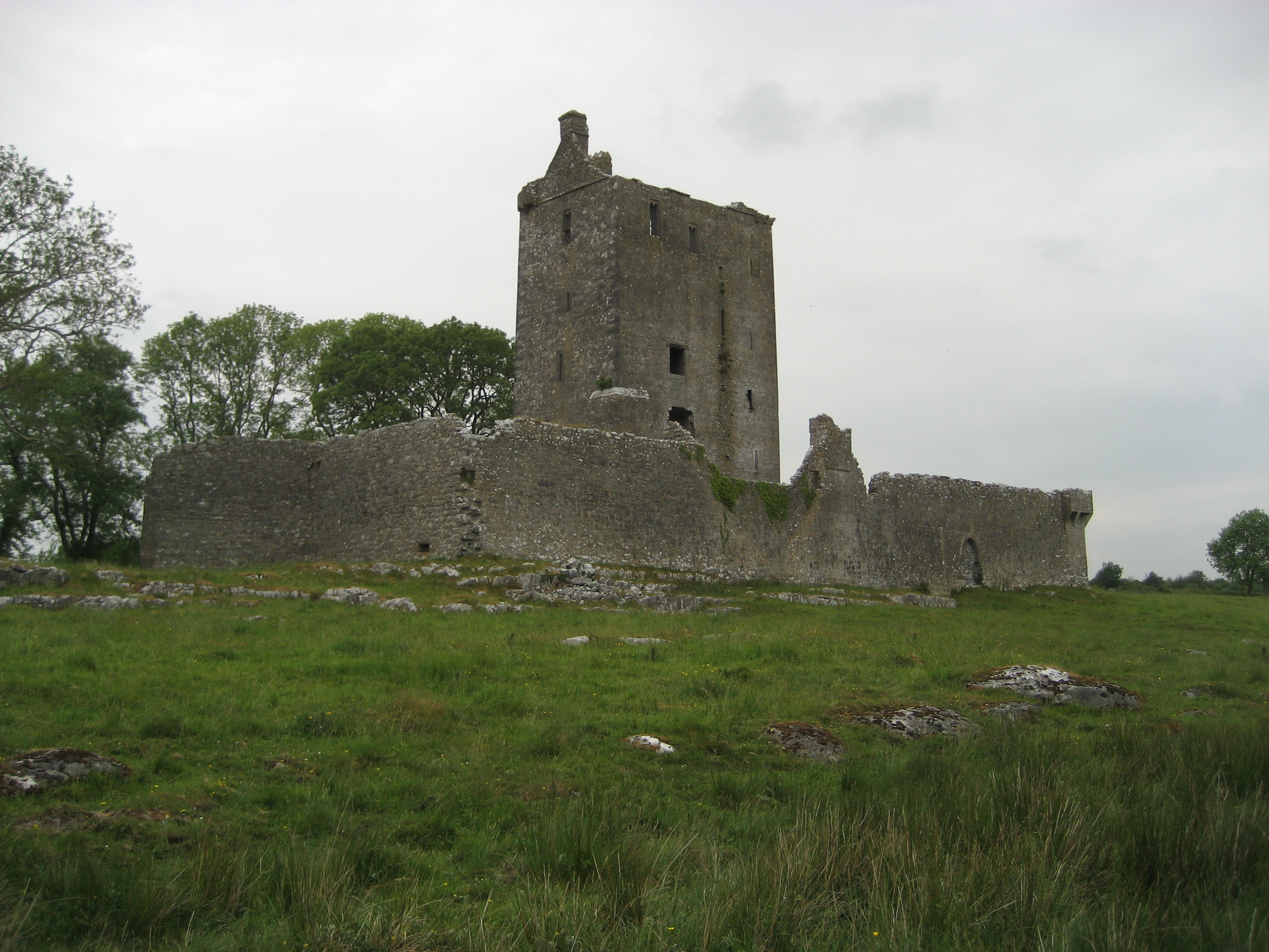 Fiddaun Castle near Tubber, County Galway, Ireland. Photo credit James Britton, May 2008.